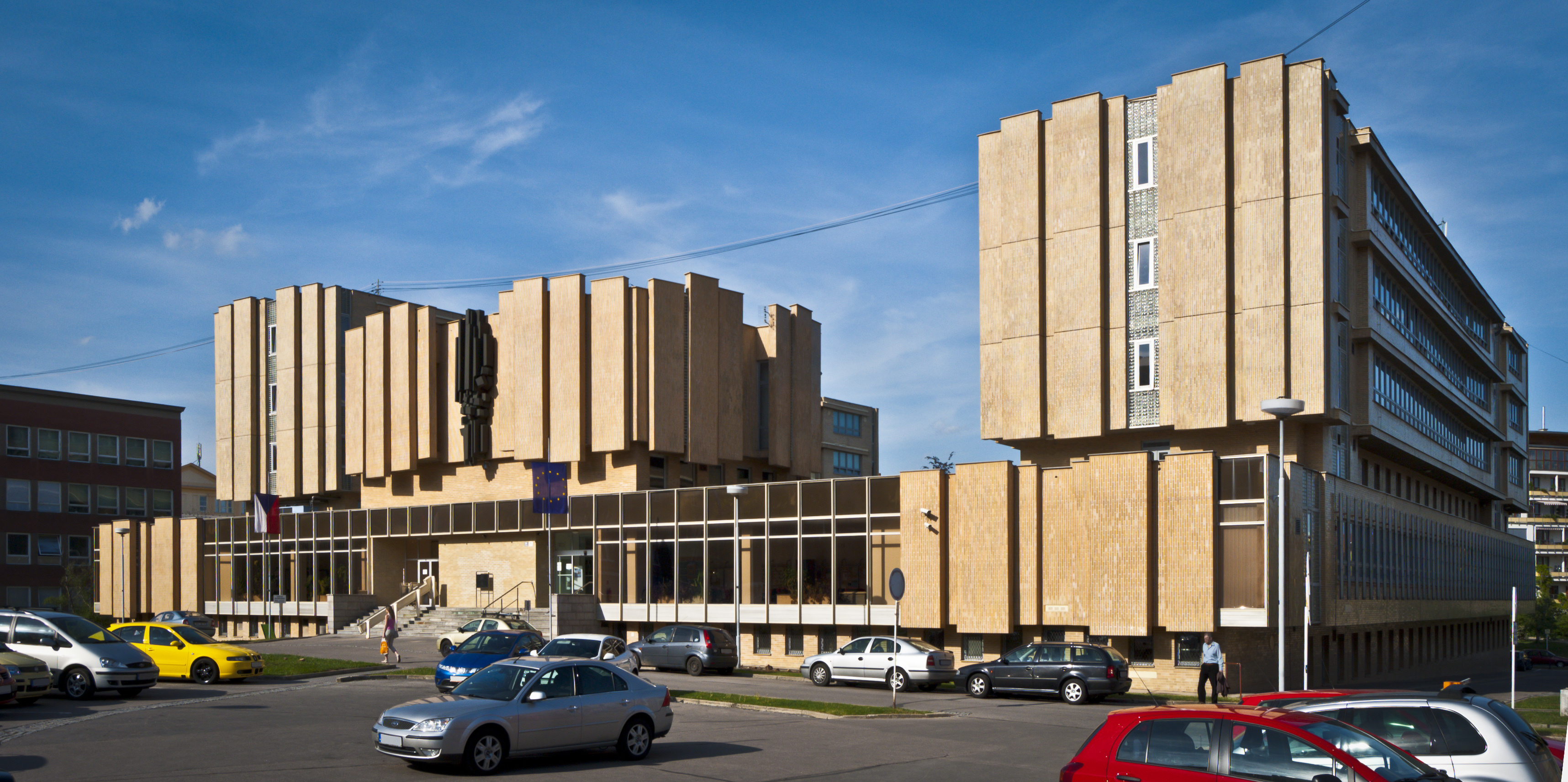 Photography of Faculty of Informatics, Masaryk University building, Brno, Czech Republic